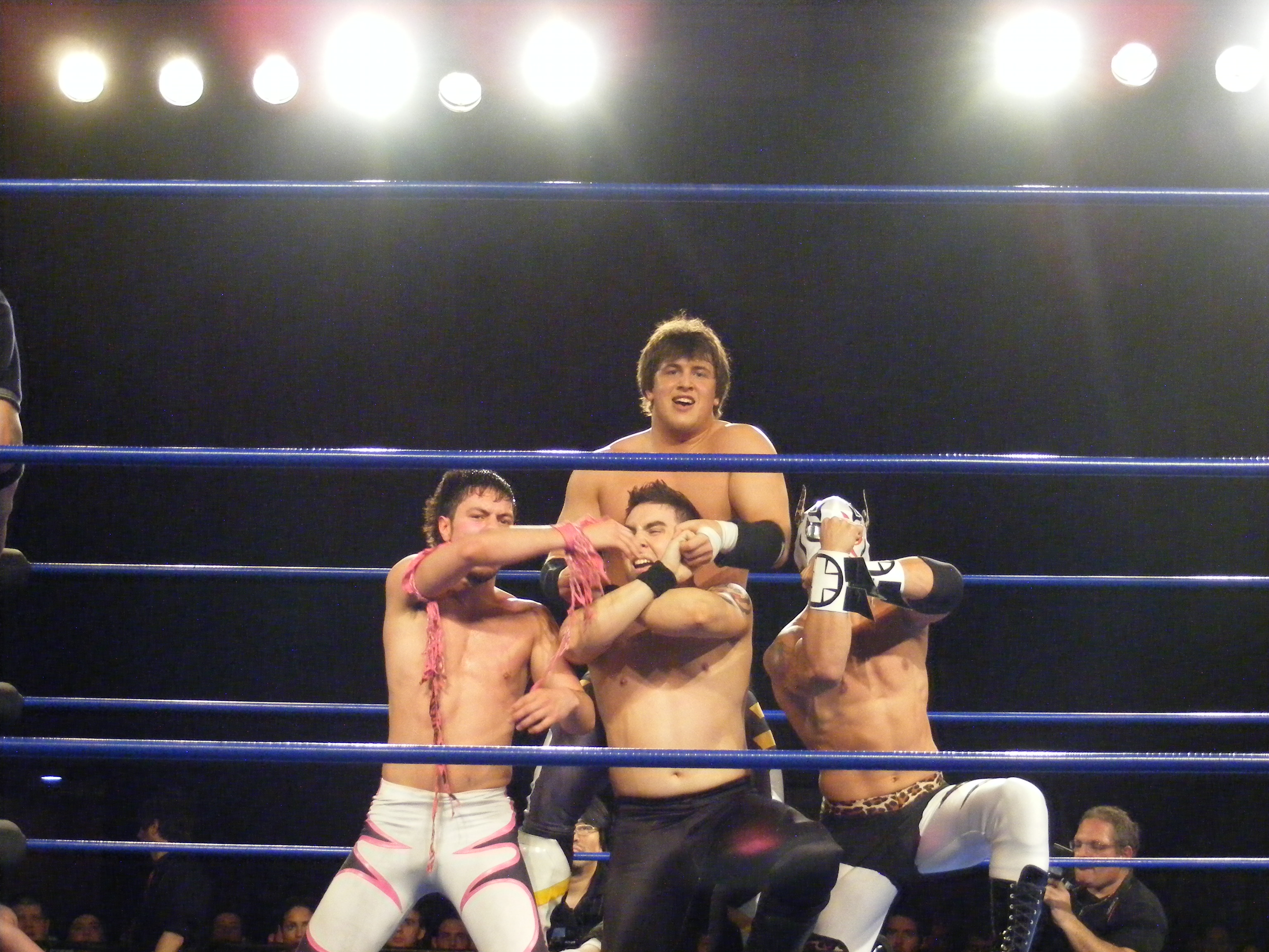 Professional wrestles Pinkie Sanchez, Tim Donst and Lince Dorado posing over Ryan Cruz at a Chikara show.